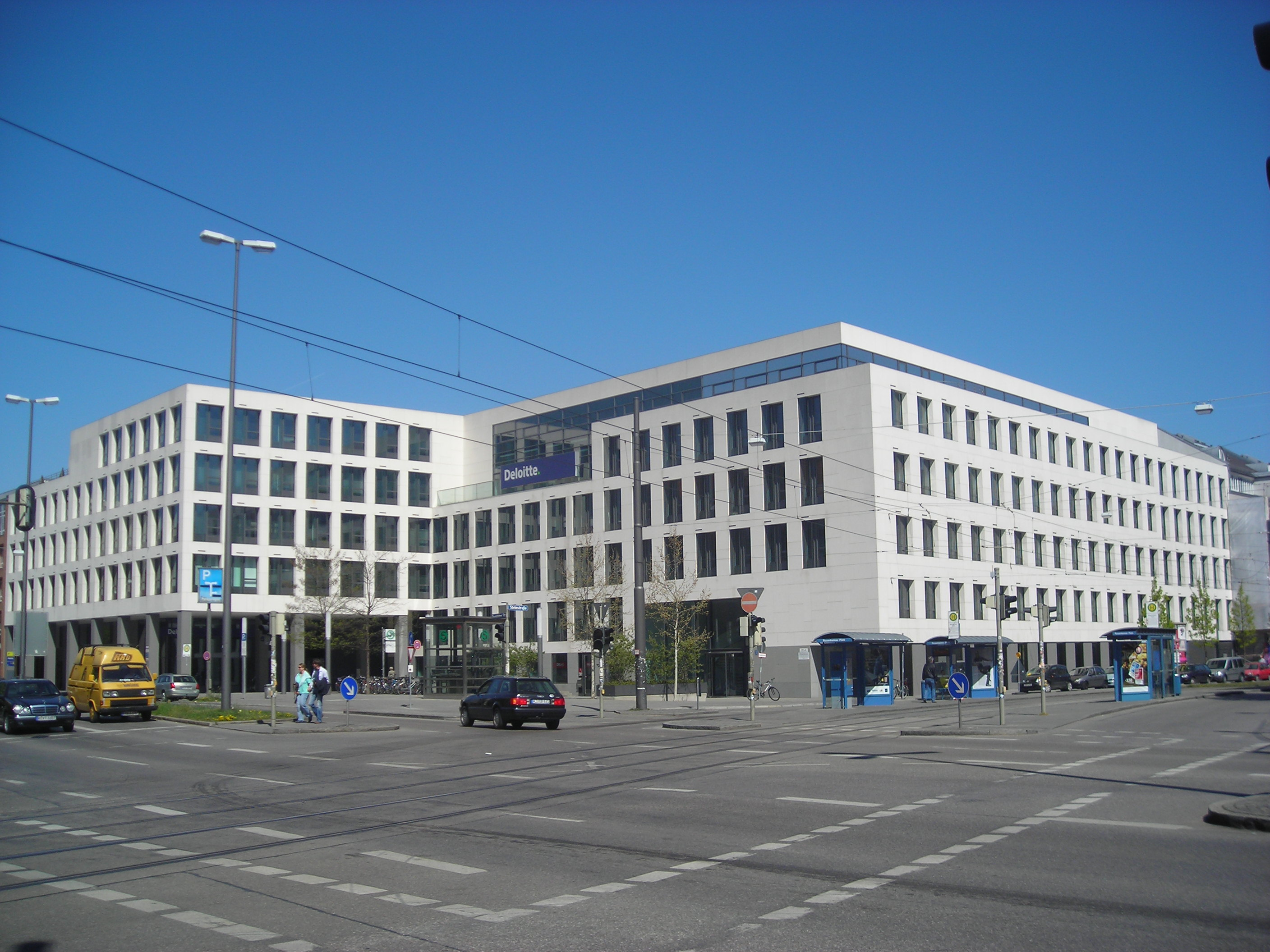 Deloitte Touche Tohmatsu building in Munich, Germany.